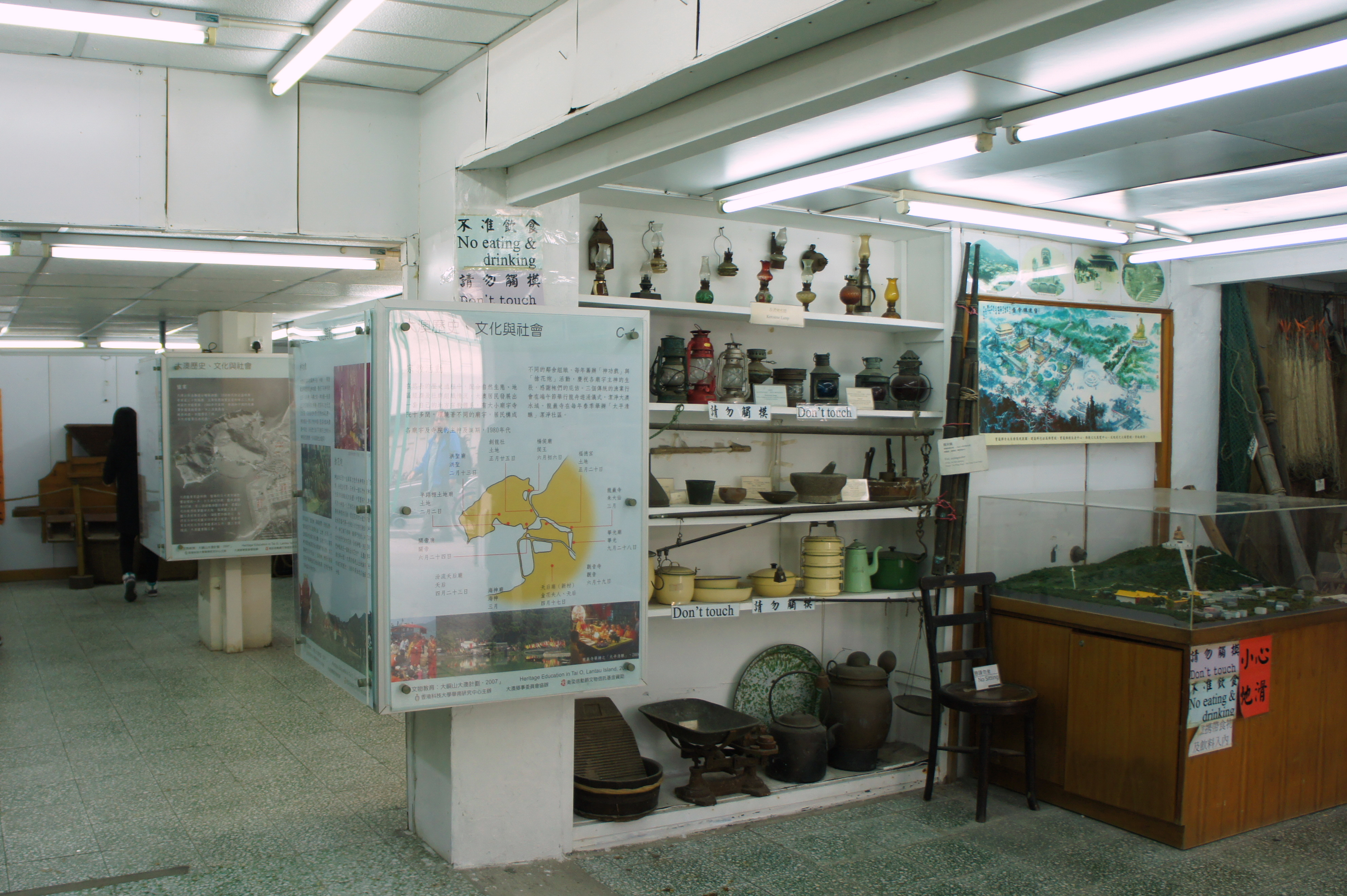 Tai O Cultural Workshop showcases housing implements and photos of Tai O, Hong Kong.